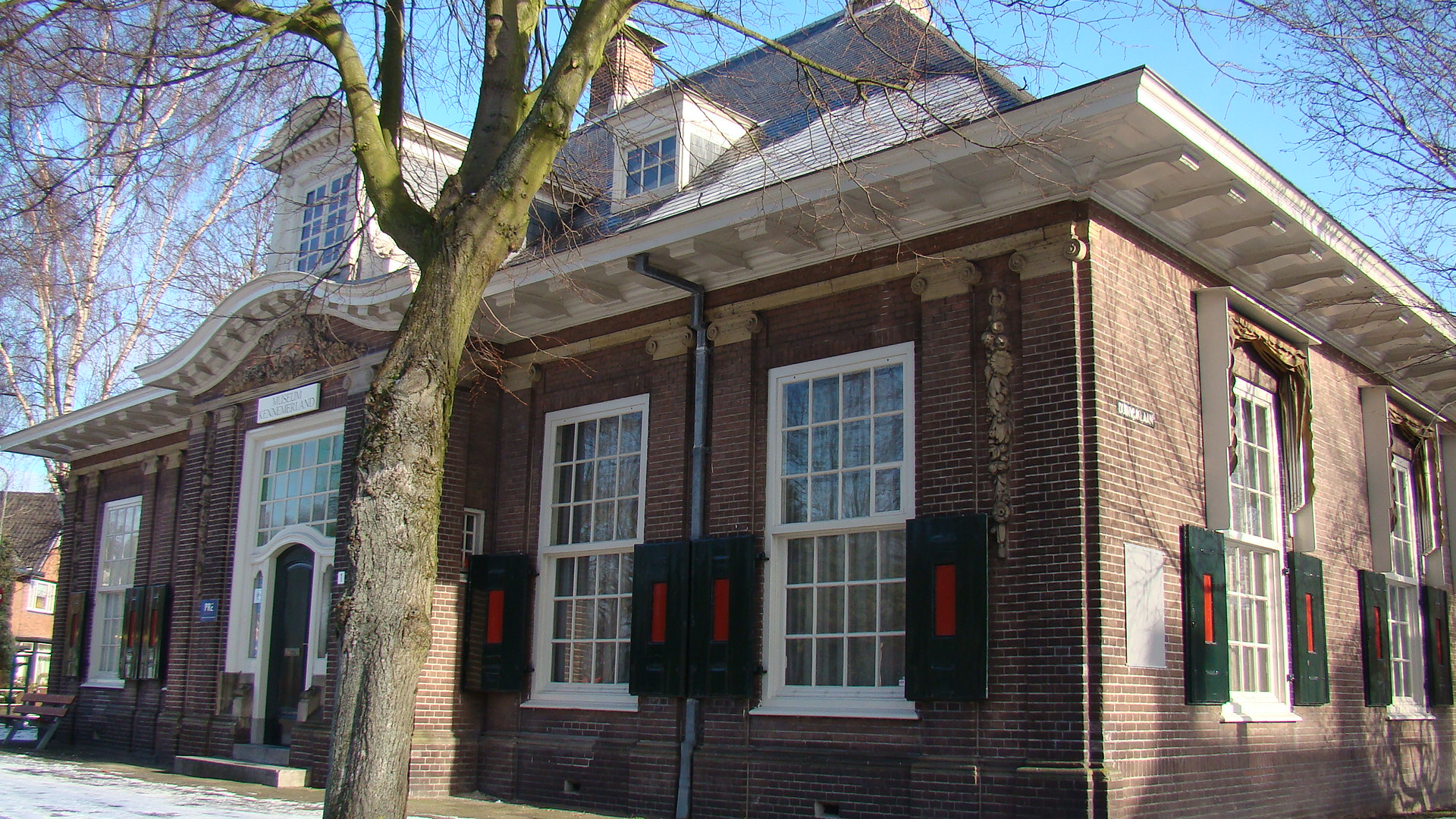 Museum Kennemerland at Beverwijk